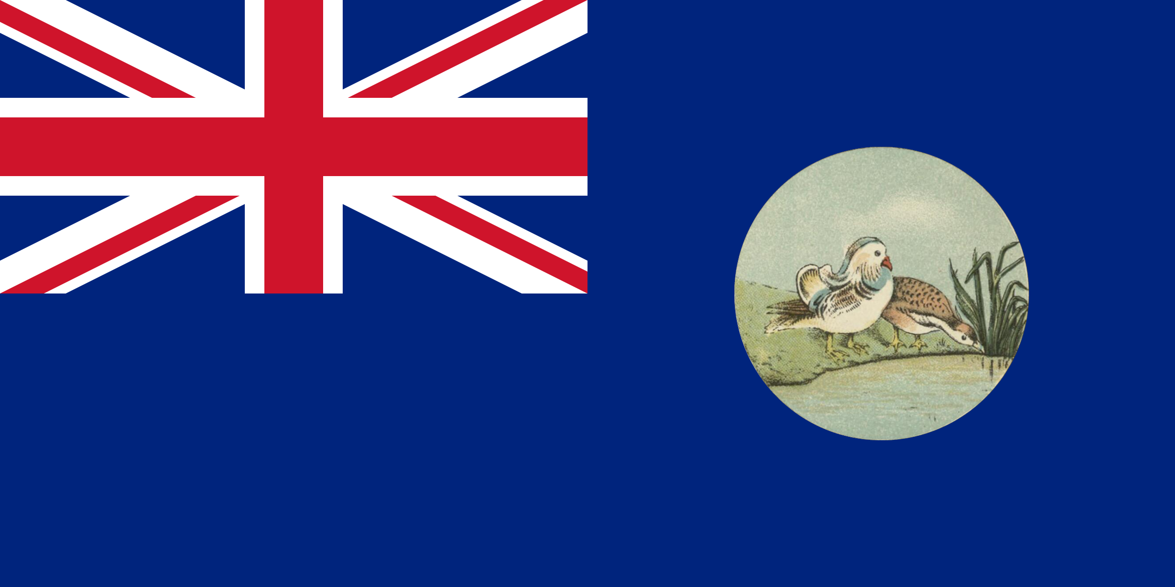 Flag of the British Concession in Weihaiwei from 1903 to 1930